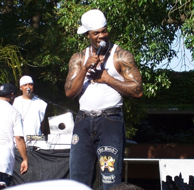 Busta Rhymes at University of California, Riverside's Spring Splash, 2005